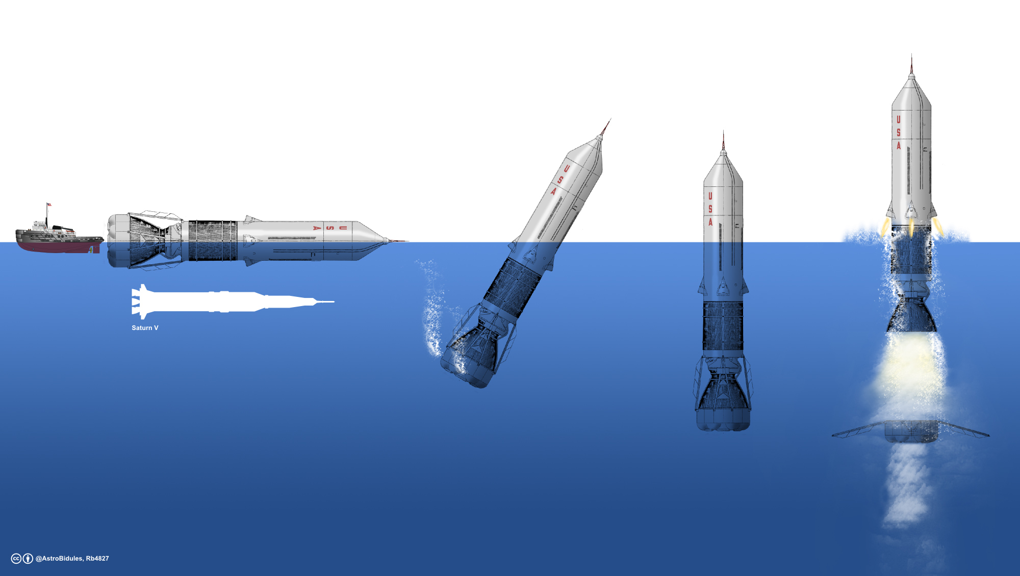 Concept of the heavy rocket Sea Dragon